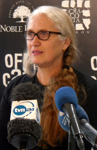 New Zealand film director Jane Campion at the polish film festival "Off Plus Camera" in Kraków (2010)